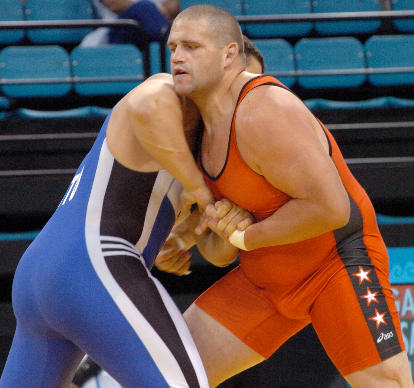 2004 Summer Olympics - Army World Class Athlete Program - FMWRC - U.S. Army - Official Image Archive - Athens Greece - XXVIII Olympiad